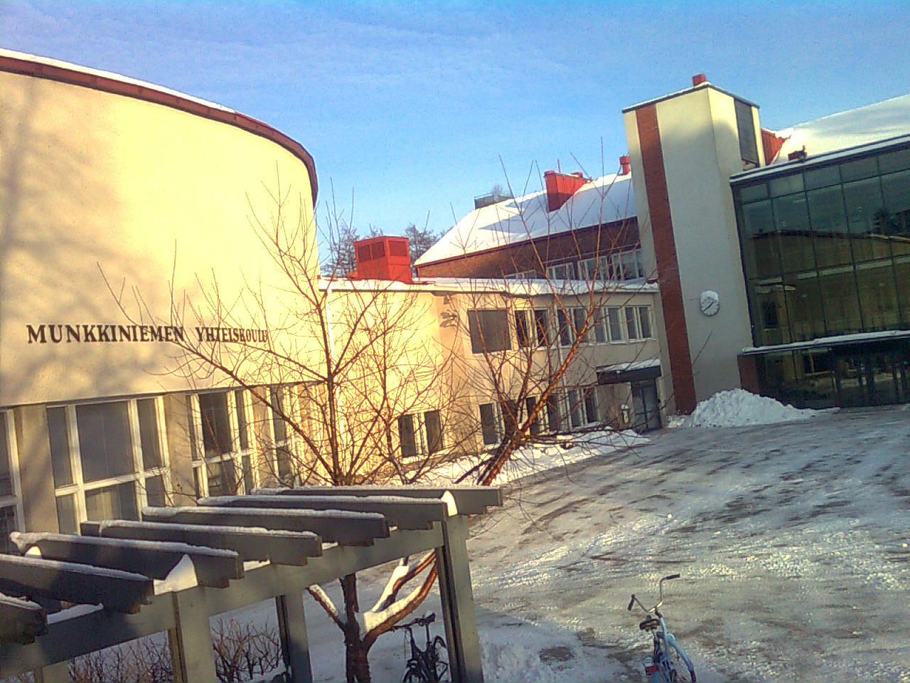 A picture of Munkkiniemi